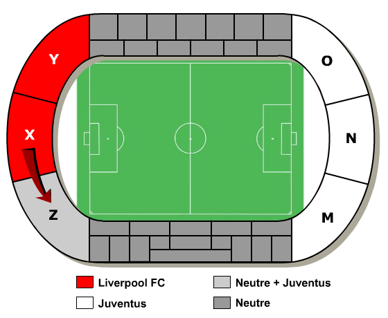 Graphic produced by Heynoun, 12th December 2006